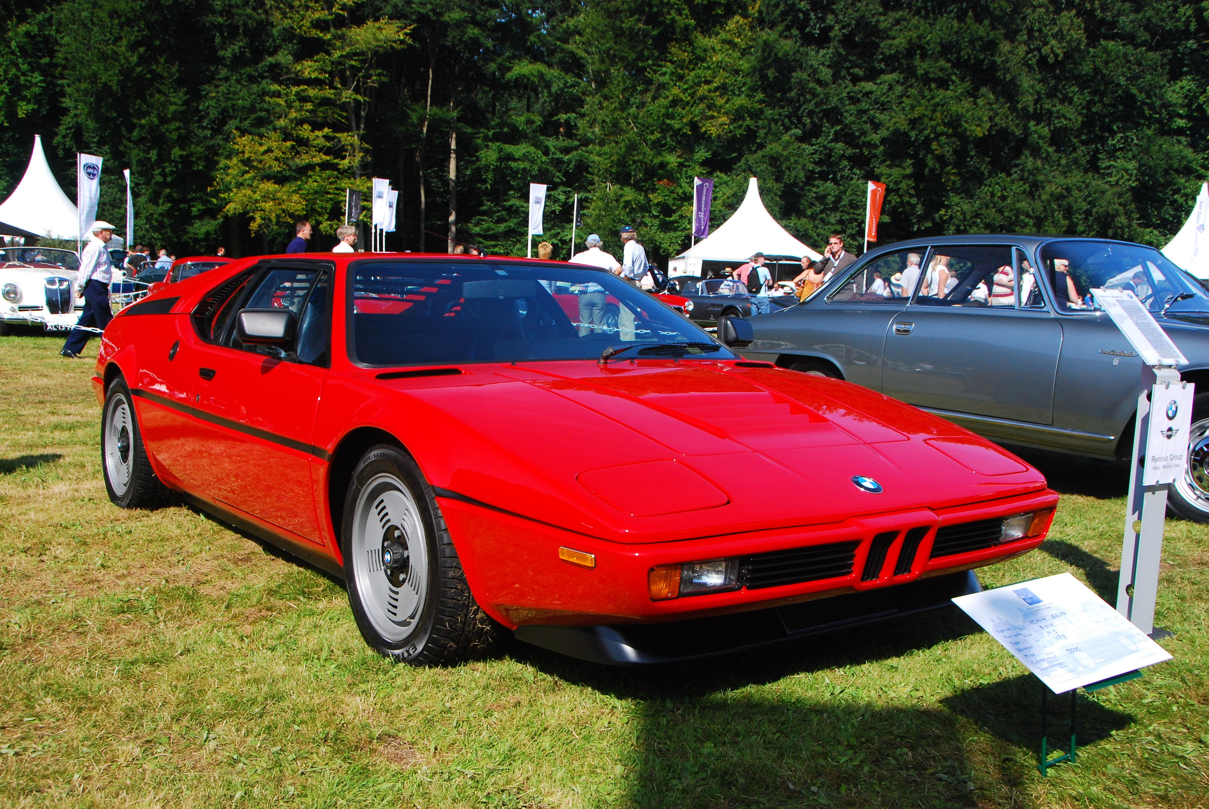 BMW M1 seen during Concours d'Elegance 2008, Apeldoorn (NL)